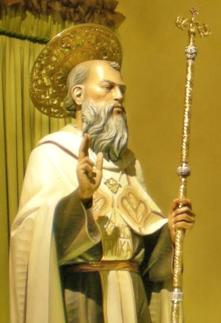 A statue of Saint Nilus of Rossano, also called Nilus the Younger (b. c. 905, - December 29, 1005) in Gaeta, Italy.